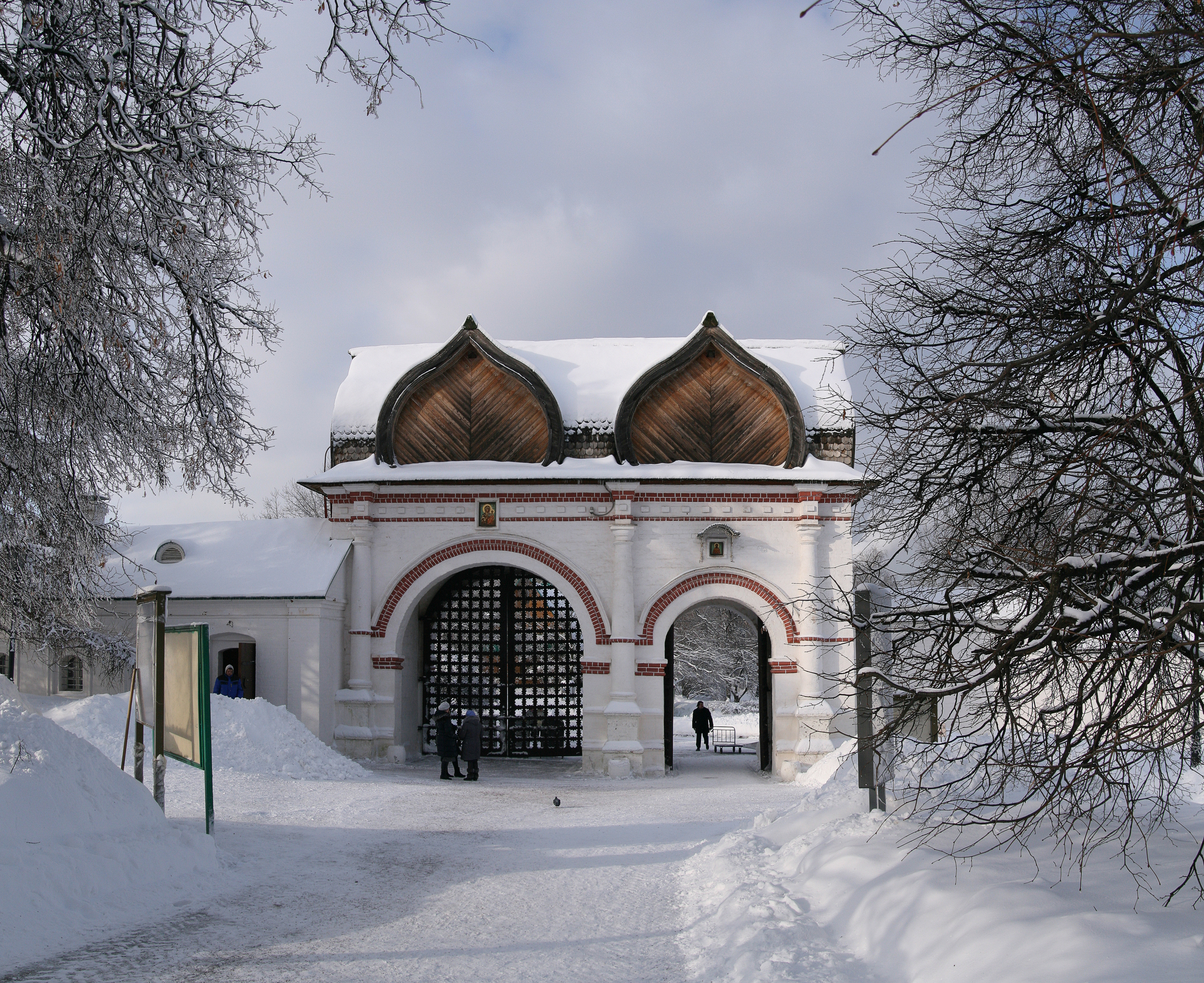 Kolomenskoe Museum Reserve in Moscow, the Saviour Gates, East facade